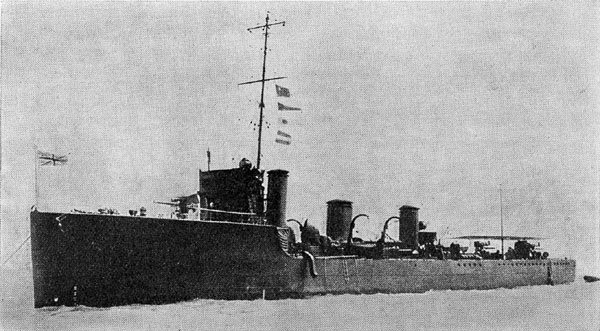 HMS Shark of the Royal Navy, built 1912. K-class torpedo boat destroyer (950 tons, 31-32 knots). Similar to the L-class of destroyers in appearance, main obvious difference the varying height of the funnels.